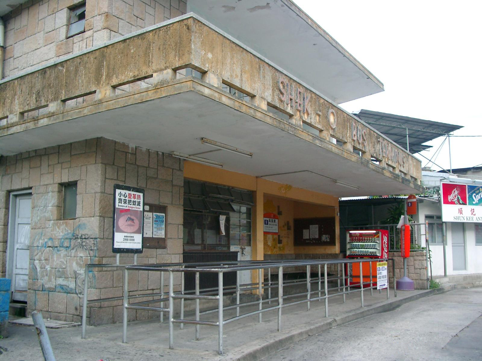 Shek O Bus Terminus